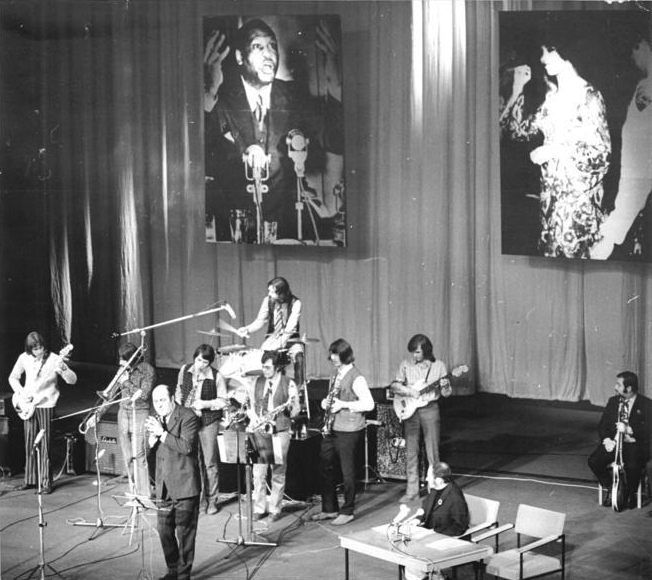 Berlin, Klaus Lenz Band, Manfred Krug Press Agency Zentralbild, photographer Franke 14 April 1971, Berlin: "I, Too, Sing America! -- From Paul Robeson to Angela Davis" - this was title of a musical-literary event put on by well-known artists from the GDR and the USA on 14 April 1971 on the 73rd birthday of the American folksinger and in support of the struggle for the liberation of Angela Davis. Shown here are Manfred Krug and the Klaus Lenz Band during their performance at the Volksbühne.